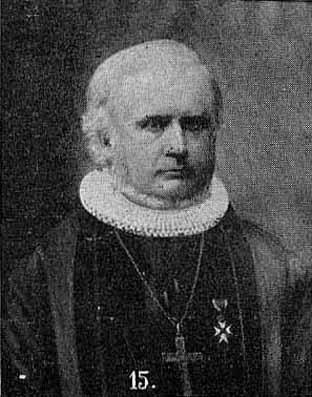 Jacob Sverdrup Smitt, Norwegian bishop (1835-1899)